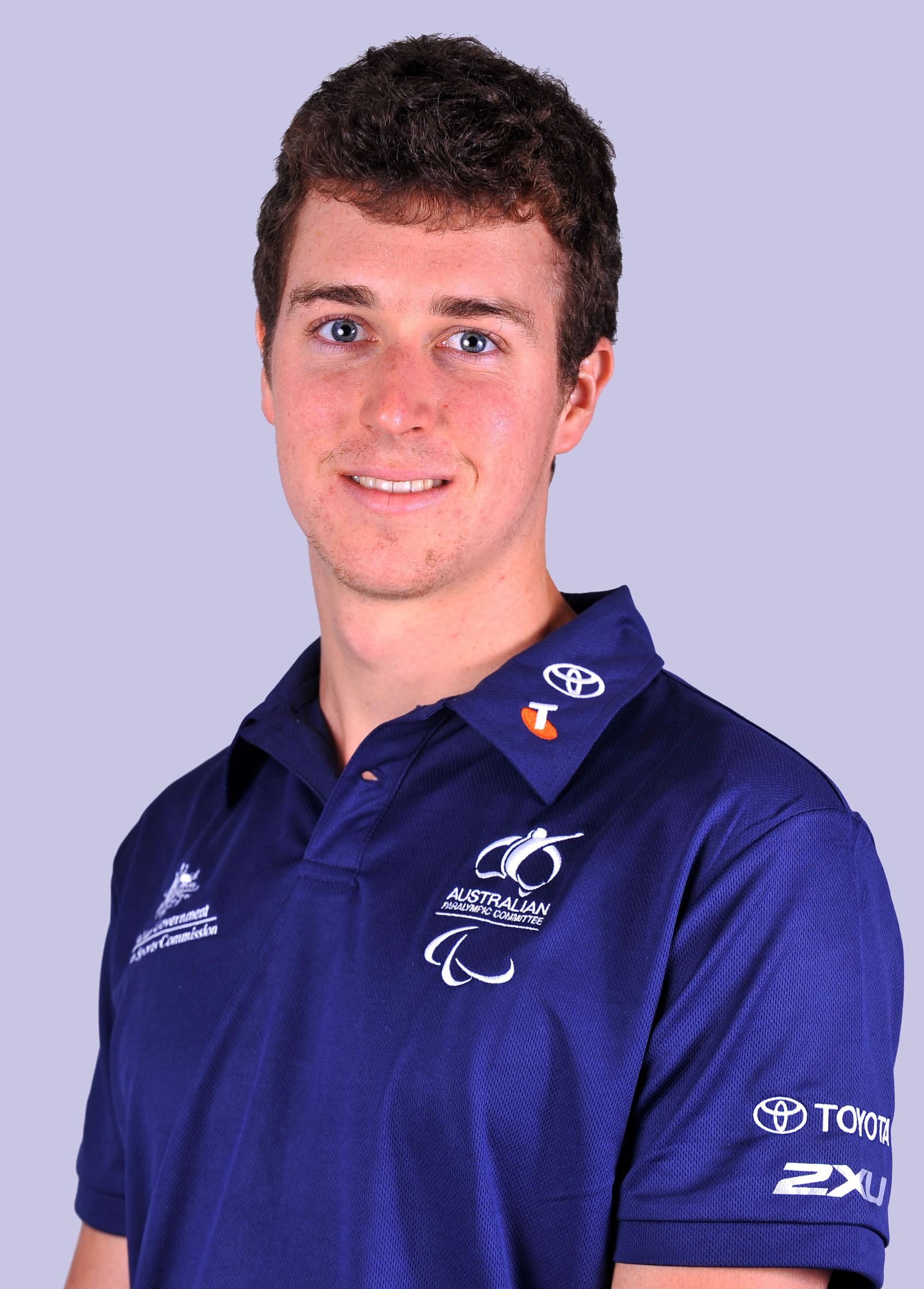 Portrait of Australian swimmer Andrew Pasterfield, 2012 Australian Paralympic (shadow) Team athlete